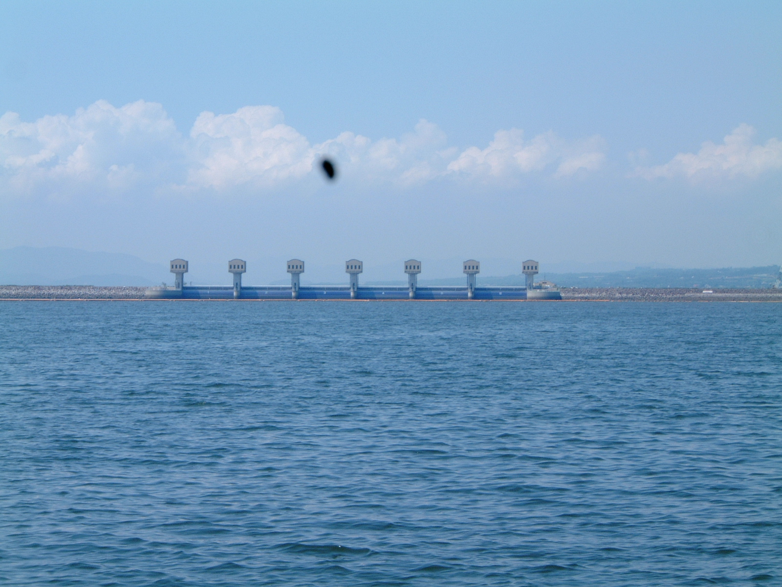 Dike of Isahaya Bay.